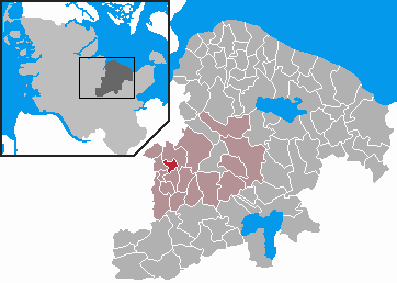 This map shows the area of the Gemeinde (municipality) Großbarkau in the Kreis (district) Plön, Schleswig-Holstein, Germany.